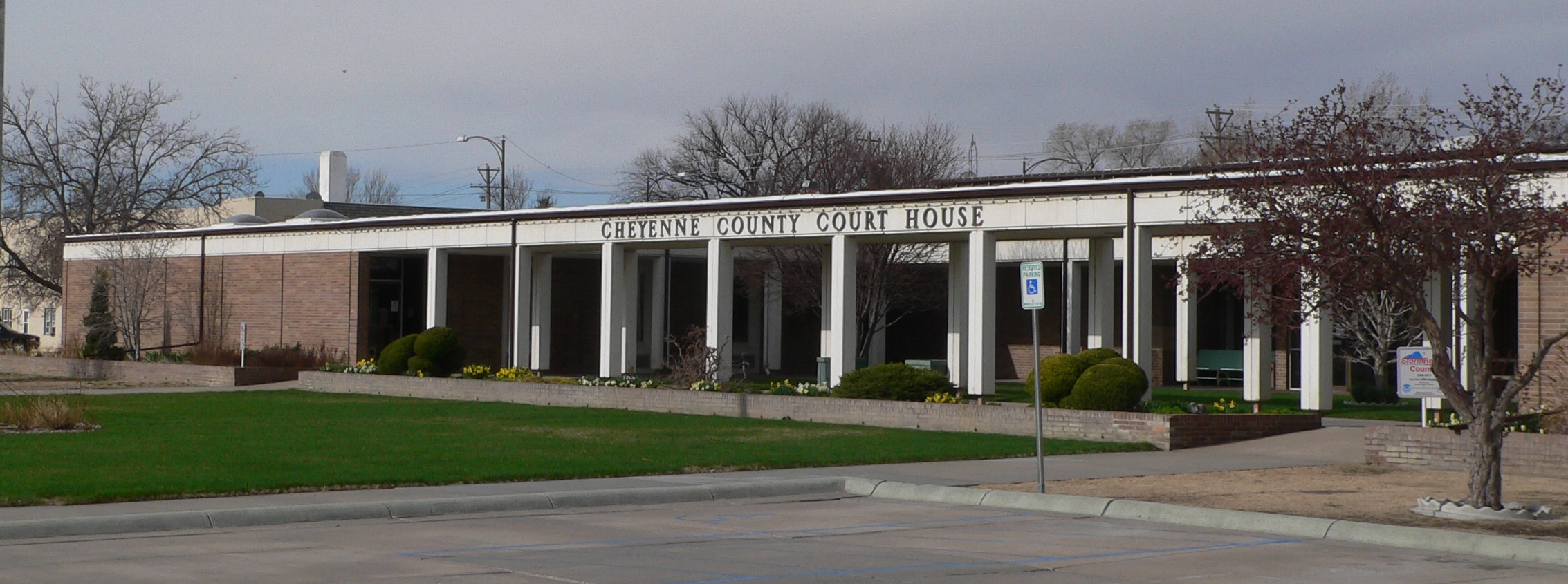 Cheyenne County courthouse in Sidney, Nebraska; east (front) side.